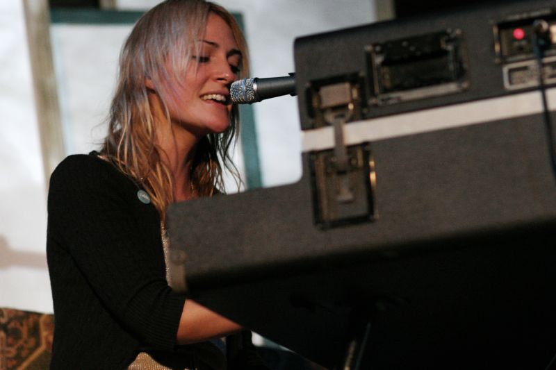 Emily Haines performing at the First Unitarian Church in Philadelphia (1/7/2007) Photo by Oliver Lopena Available at Flickr